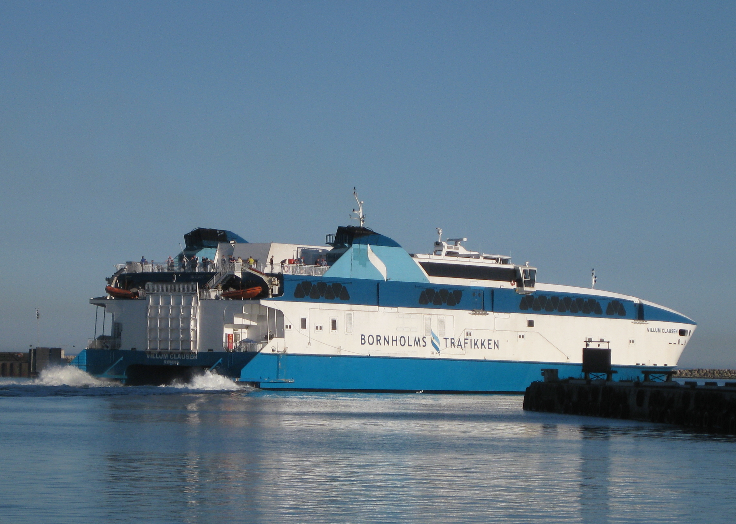 M/S Villum Clausen, ferry between Ystad and Rönne